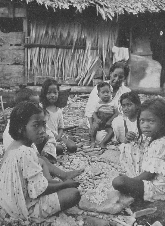 Kosraean people in 1930s